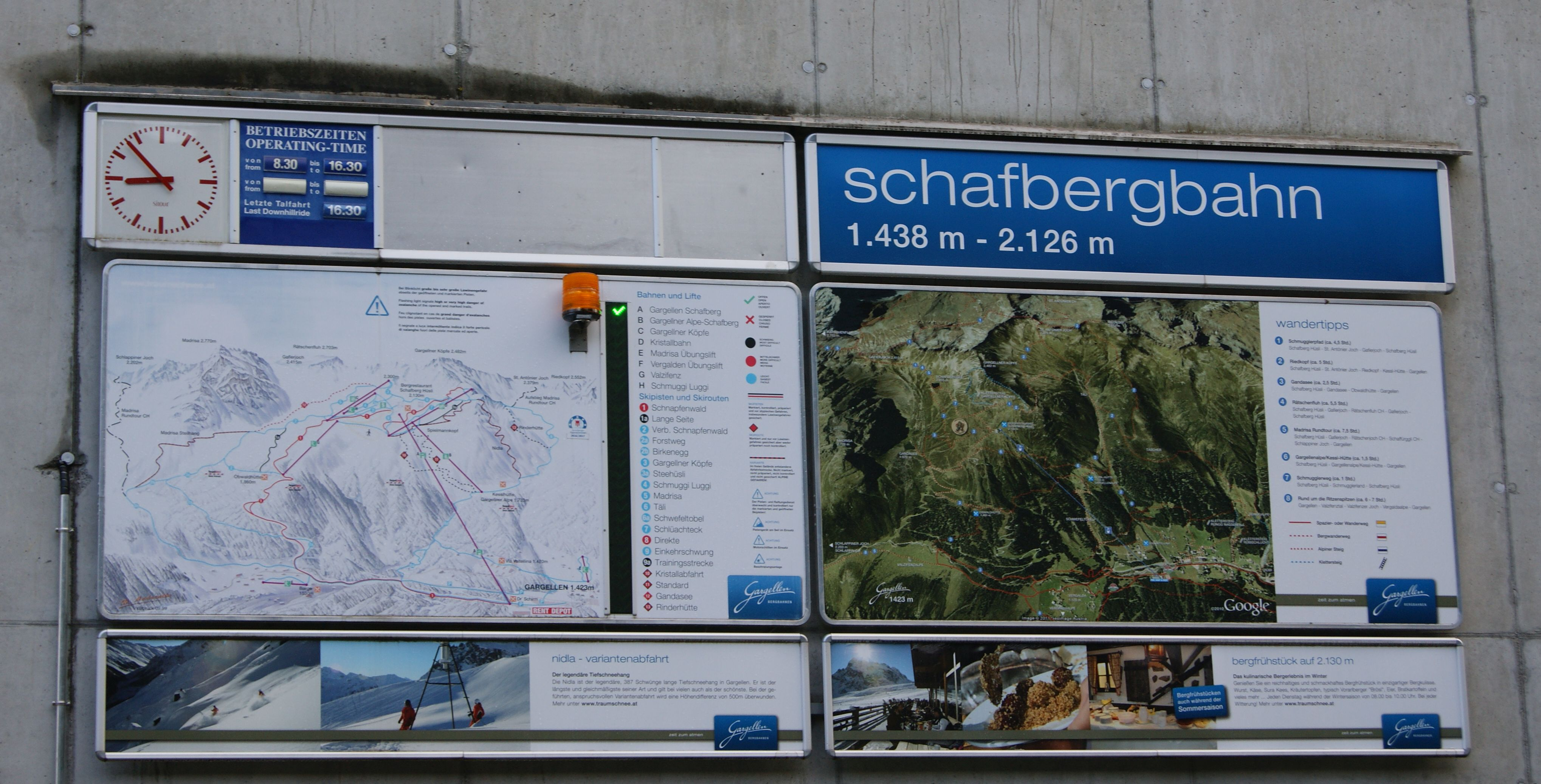 Informationboard at the Schafbergbahn in Gargellen (Vorarlberg, Austria).